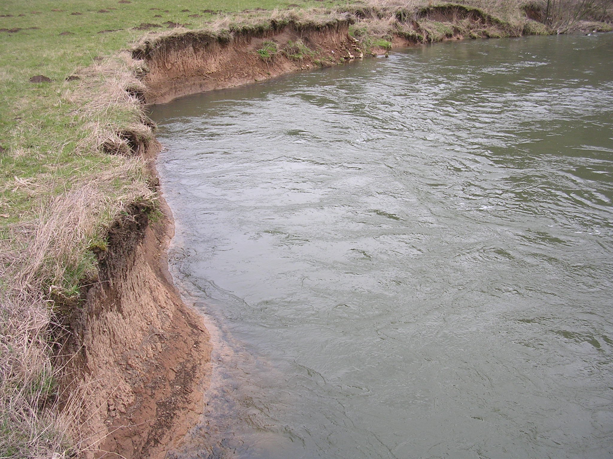 Tichá Orlice River, Orlické Podhůří, the Czech Republic.